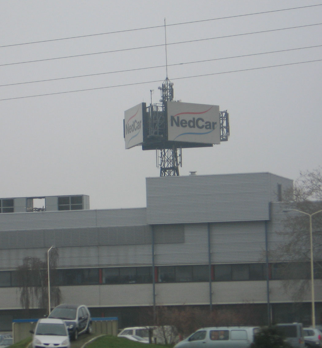 Nedcar, Born